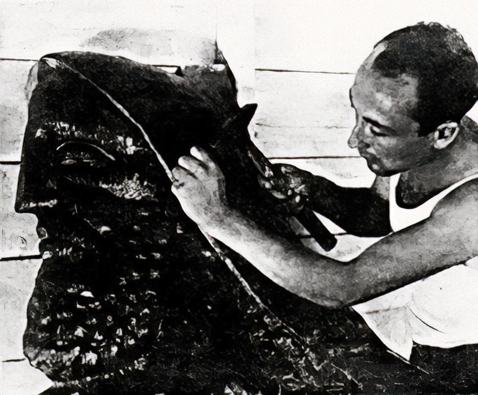 Sculptor Maurice Ascalon circa 1939 hammering his "The Scholar, The Laborer, and The Toiler of the Soil" which adorned the façade of the Jewish Palestine Pavilion of the 1939 New York World's Fair. Copyright Ascalon Studios, Inc. May be reproduced, but in all cases, Ascalon Studios, Inc. must be credited in writing as copyright holder.